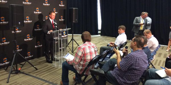 Mark Hudspeth, head coach of the Louisiana–Lafayette Ragin' Cajuns football team, speaking to the press at the 2015 Sun Belt Conference Media Day in the Mercedes-Benz Superdome in New Orleans.